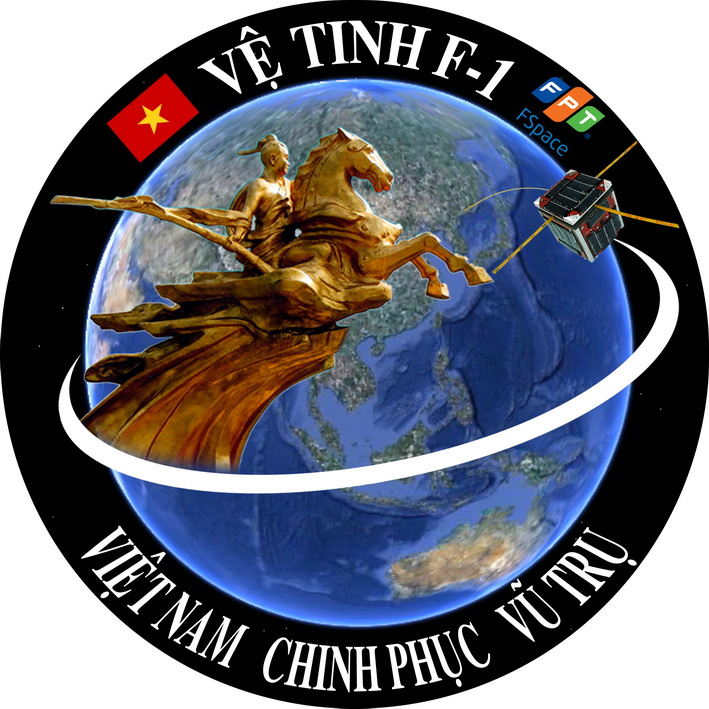 F-1 mission patch